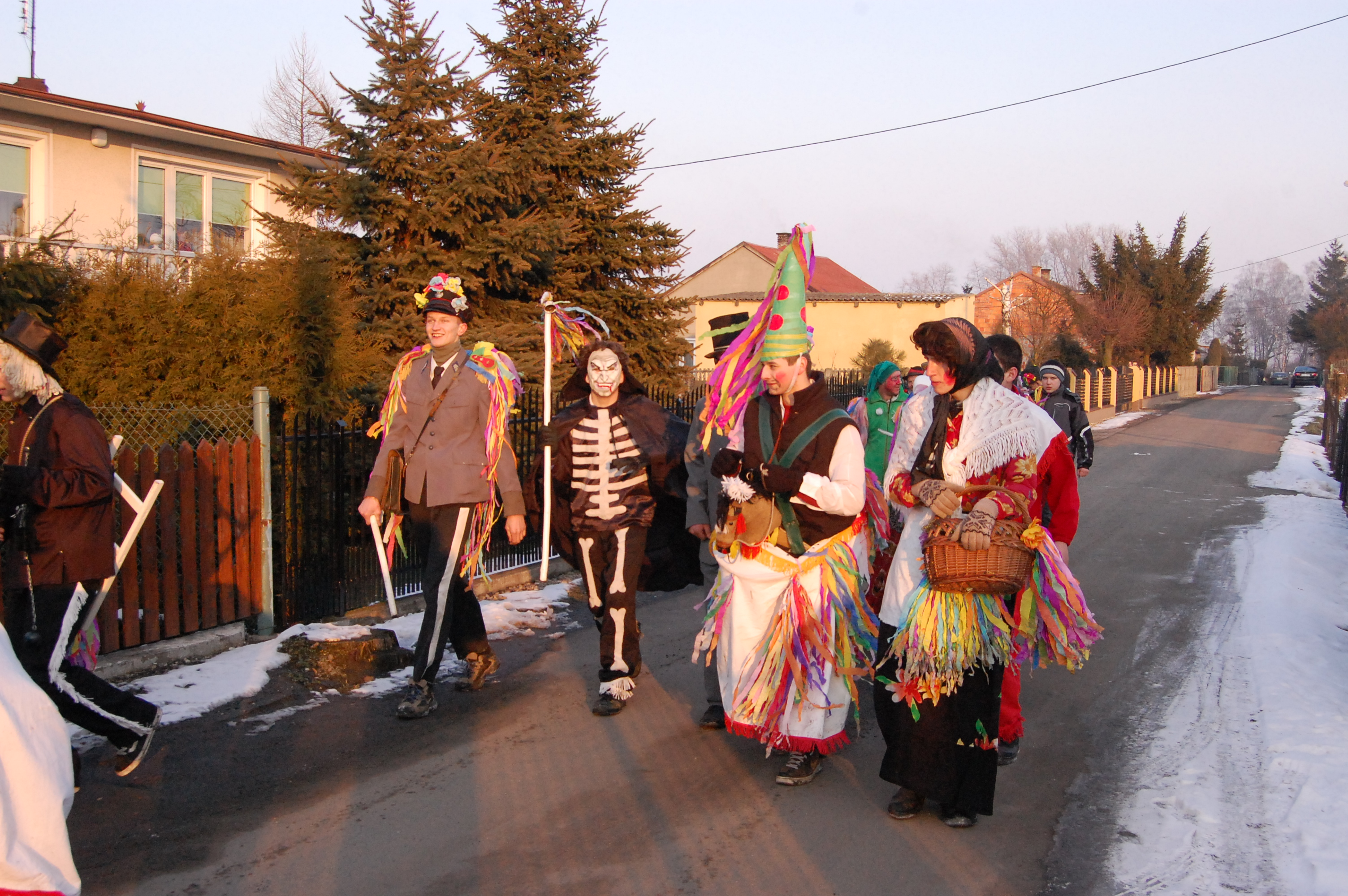 "Koza" Polish custom in Kujavian country. Last day of carnival